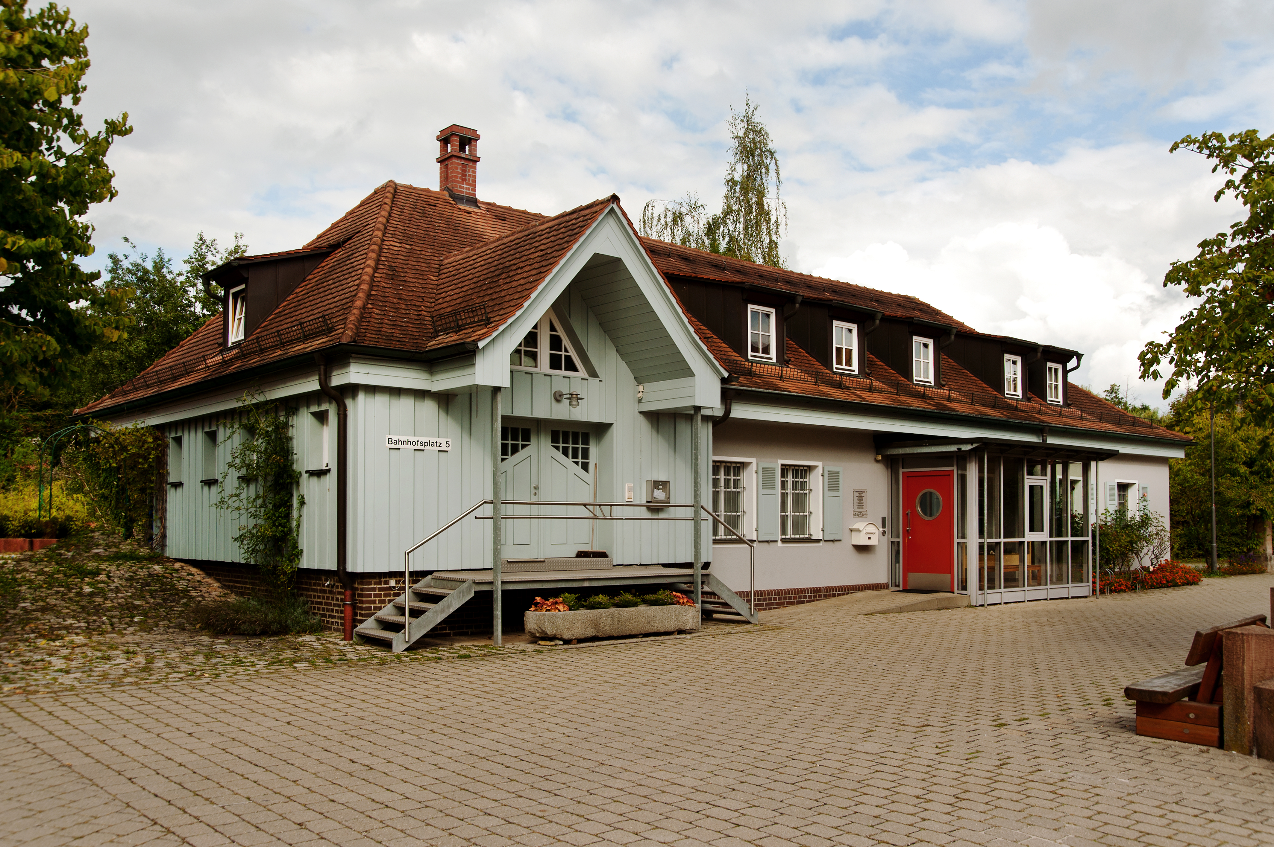 This is a photograph of an architectural monument.